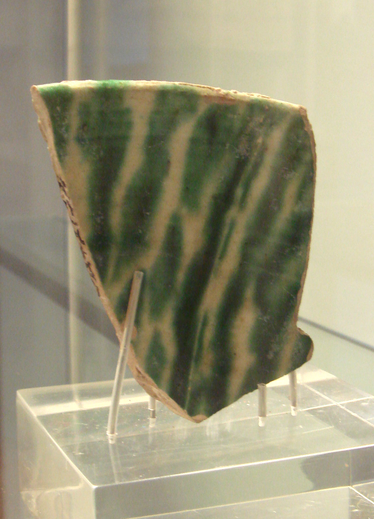 Chinese_sancai_sherd_9th_10th_century_found_in_Samarra.